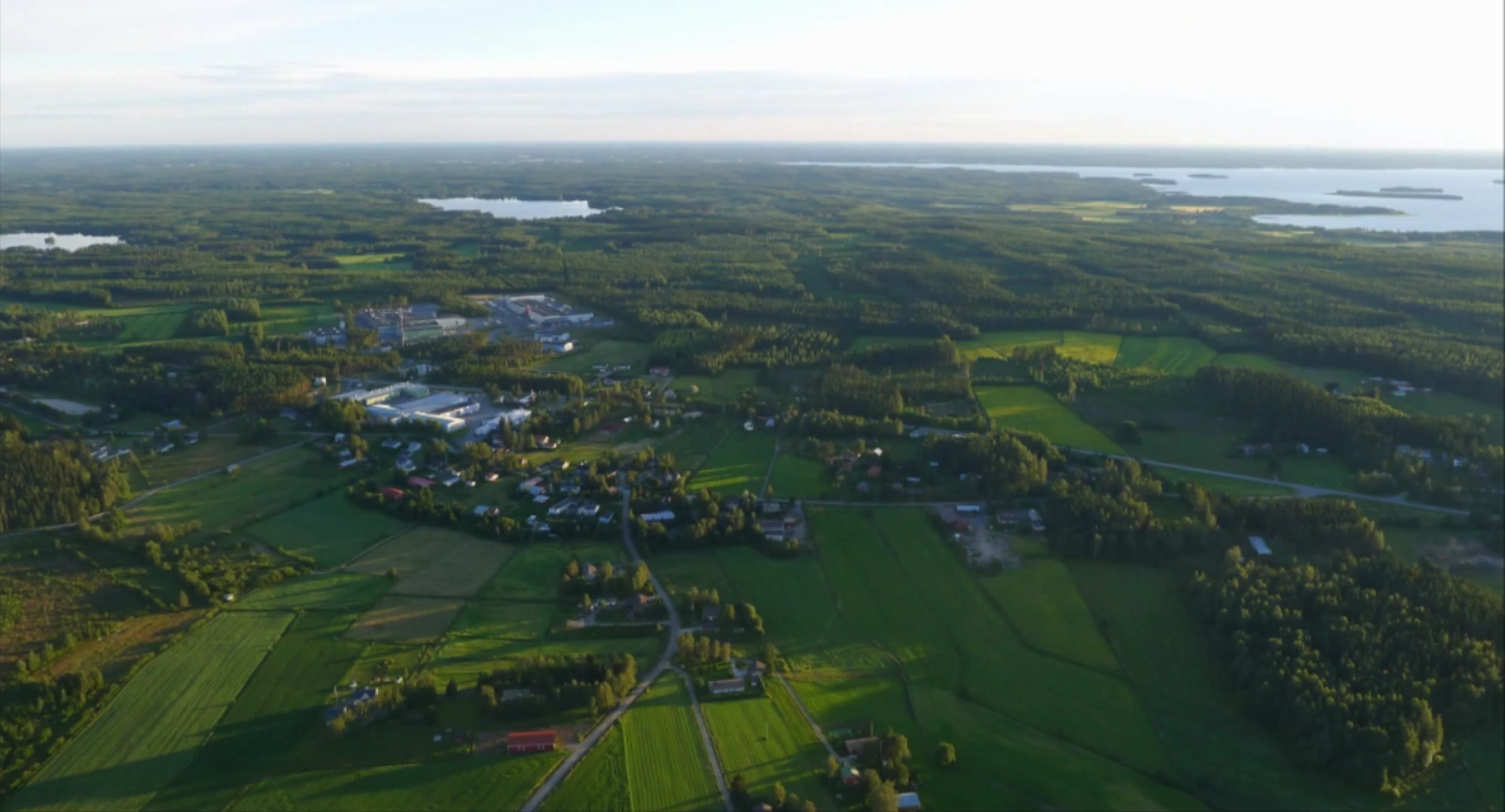 Luoma-aho in Alajärvi, Finland from air